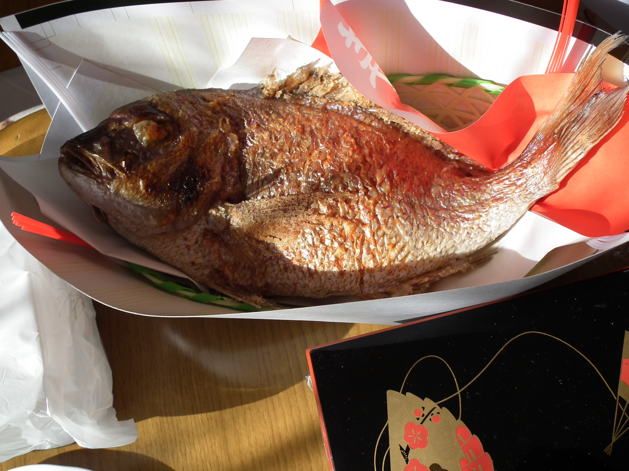 Sparidae、